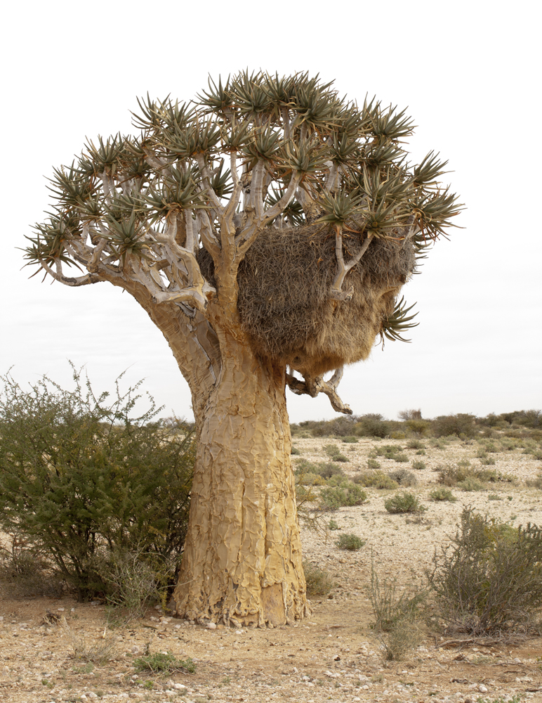 A Sociable Weaver Philetairus socius nest in a Quivertree (or Kokerboom) Aloe dichotoma in the Augrabies National Park, in Bushmanland, Northern Cape Province, South Africa.